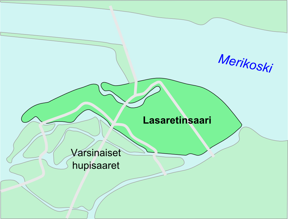 Thememap of Lasaretinsaari, Oulu, Finland